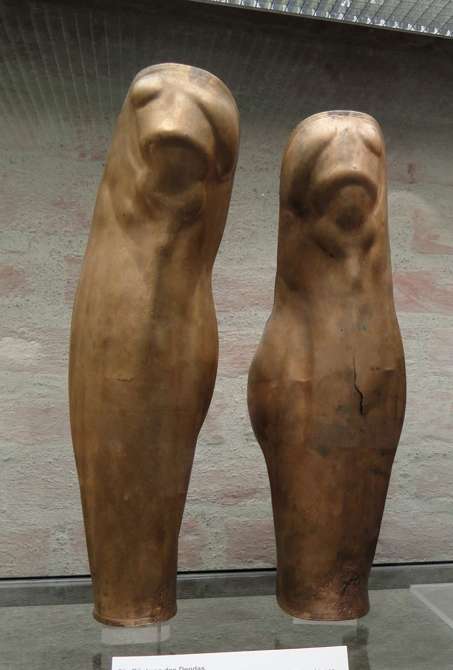 Greaves from the tomb of Denda. The name of the warrior (Denda) is engraved on the left greave. From a Greek workshop in South Italy, 500–490 BC. Staatliche Antikensammlungen, Munich, Germany.